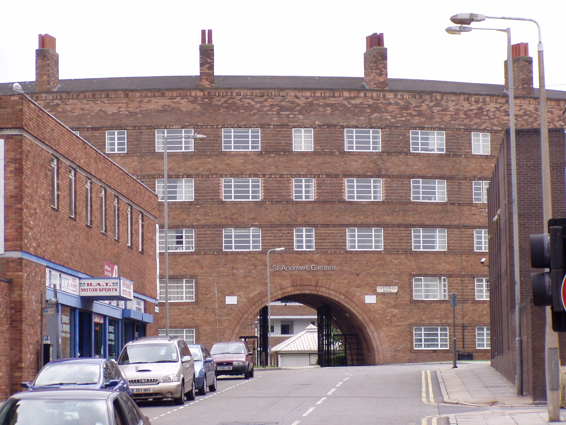 St Andrews Gardens known local as the bullring now student village.